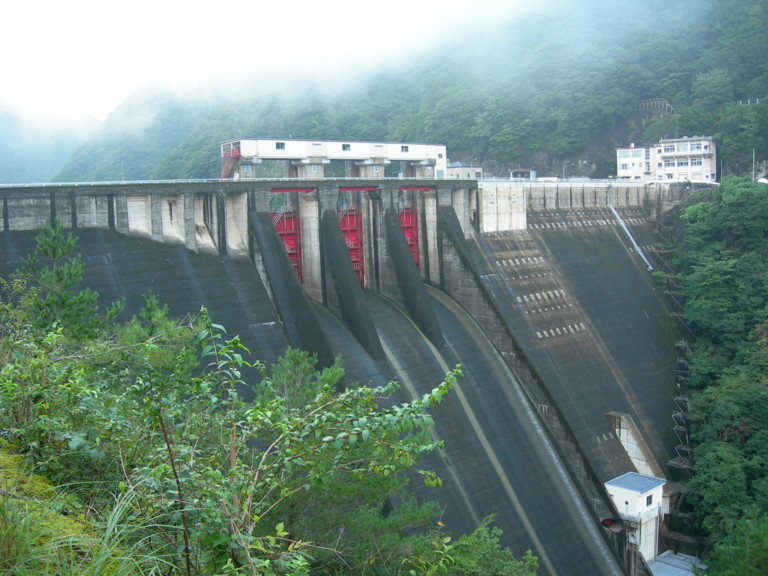 Miyagawa-dam at Odai town Taki District Mie Pref. Japan.